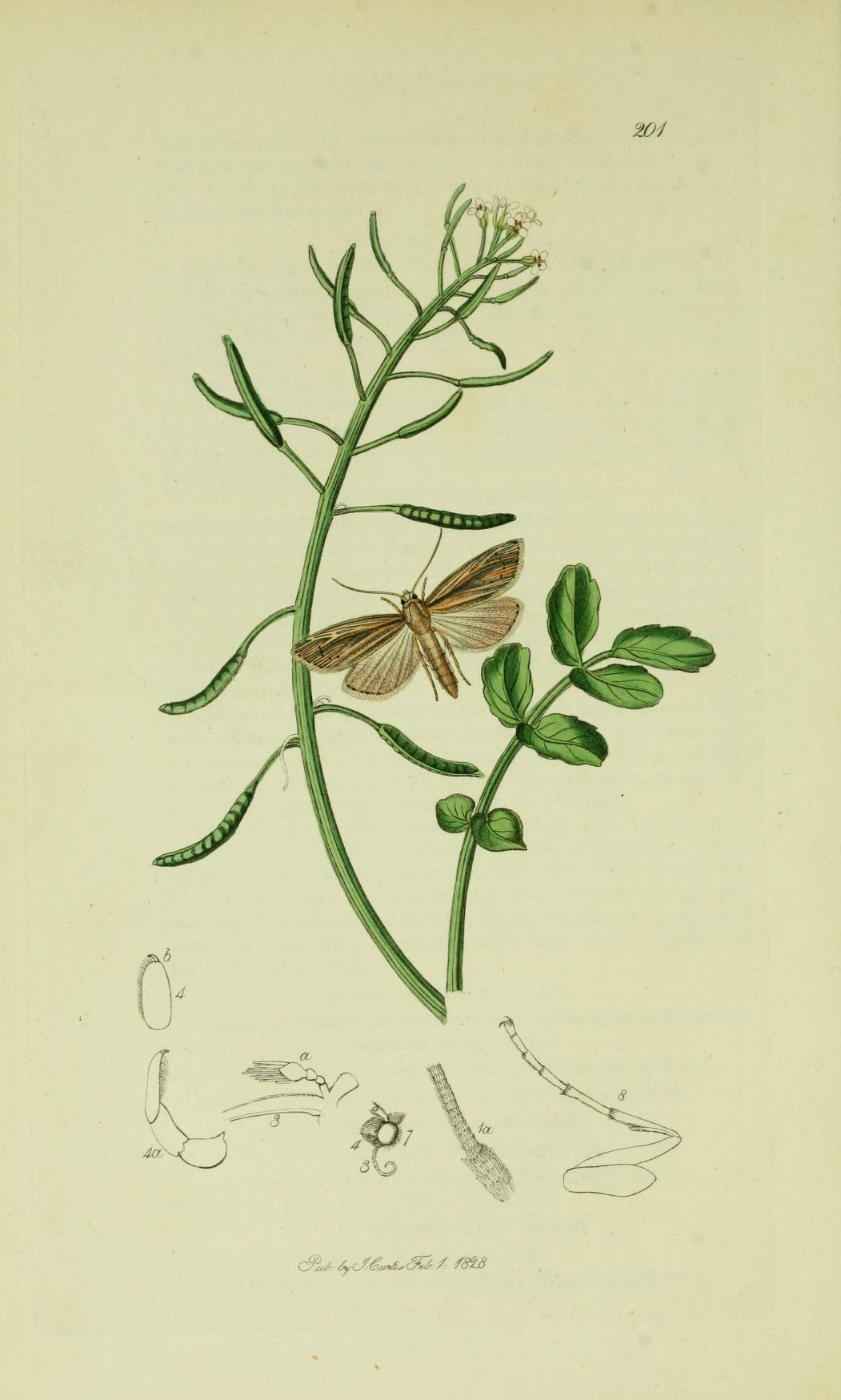 An illustration from British Entomology by John Curtis. Lepidoptera: Melia flammea Senta (Mythimna) flammea (Flame Wainscot).